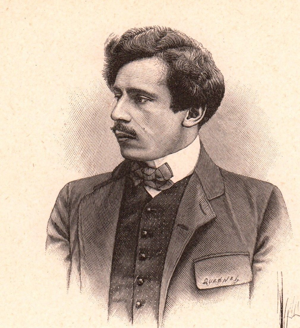 French painter and illustrator Abel Faivre (1867-1945)